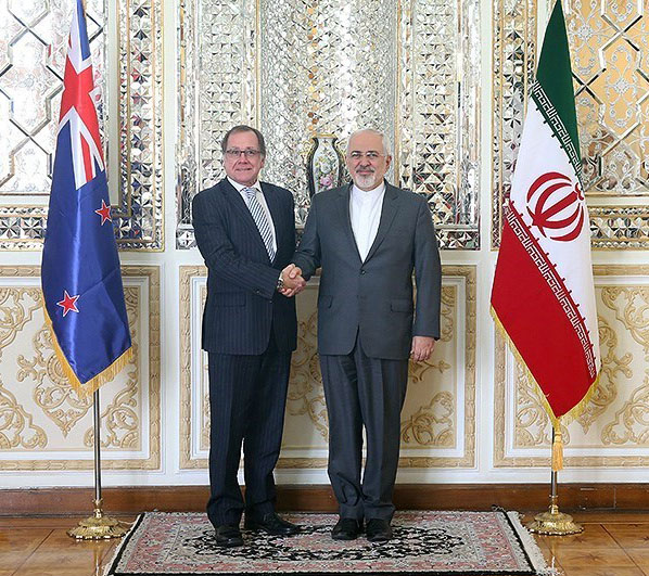 Join press conference of Murray McCully and Mohammad Javad Zarif in Tehran.